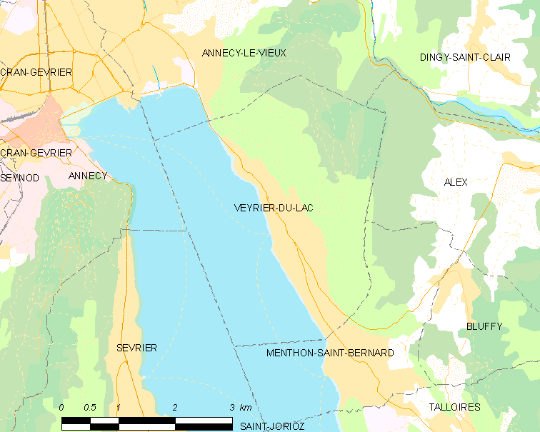 Map of French municipality Veyrier-du-Lac